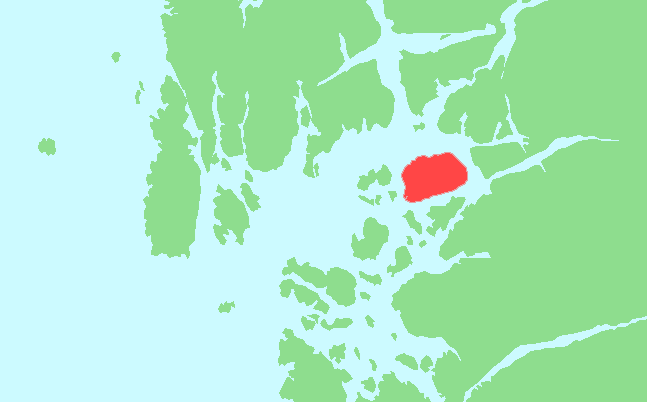 Locator map of Ombo, Rogaland, Norway